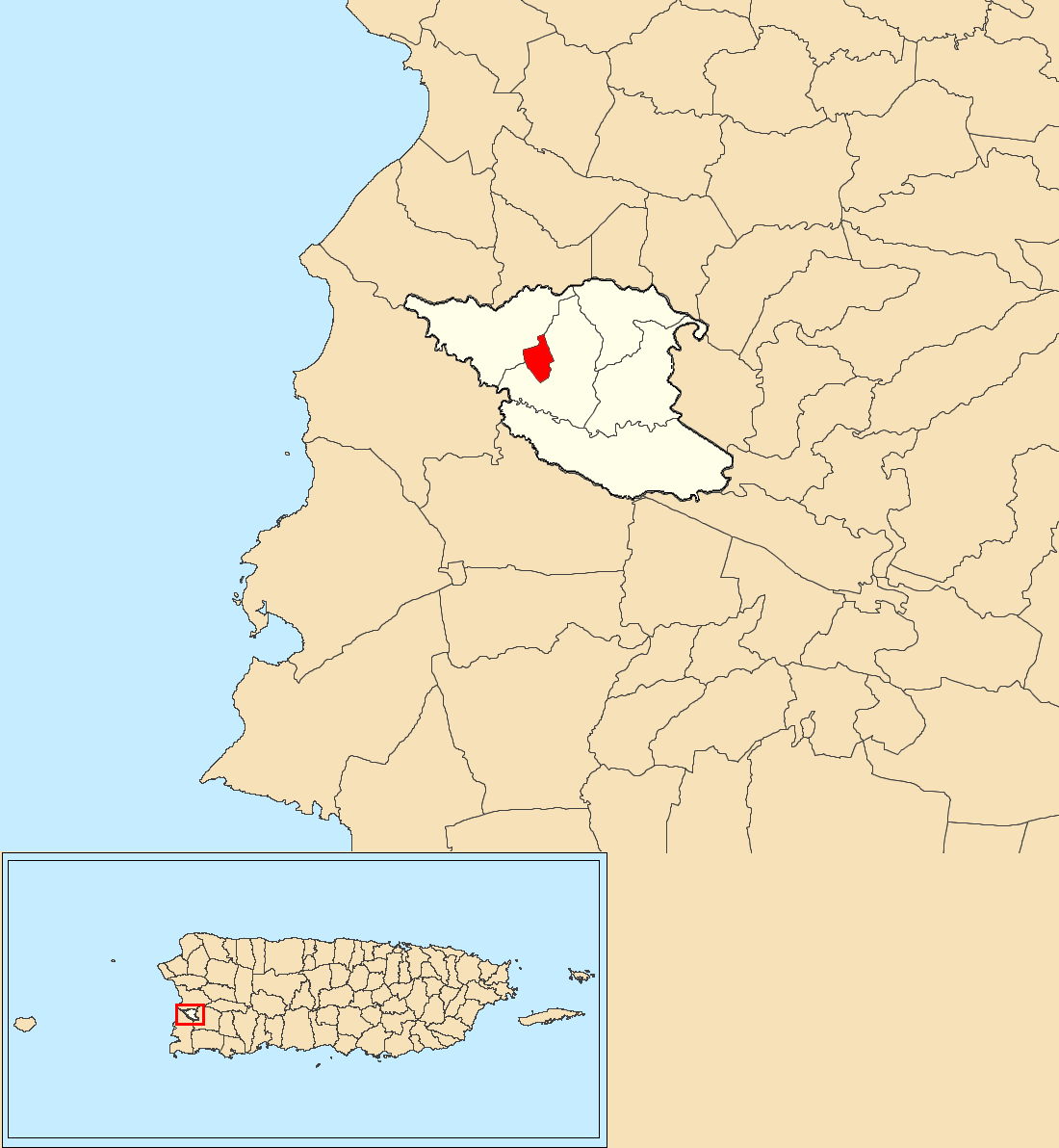 Hormigueros barrio-pueblo, Hormigueros, Puerto Rico locator map